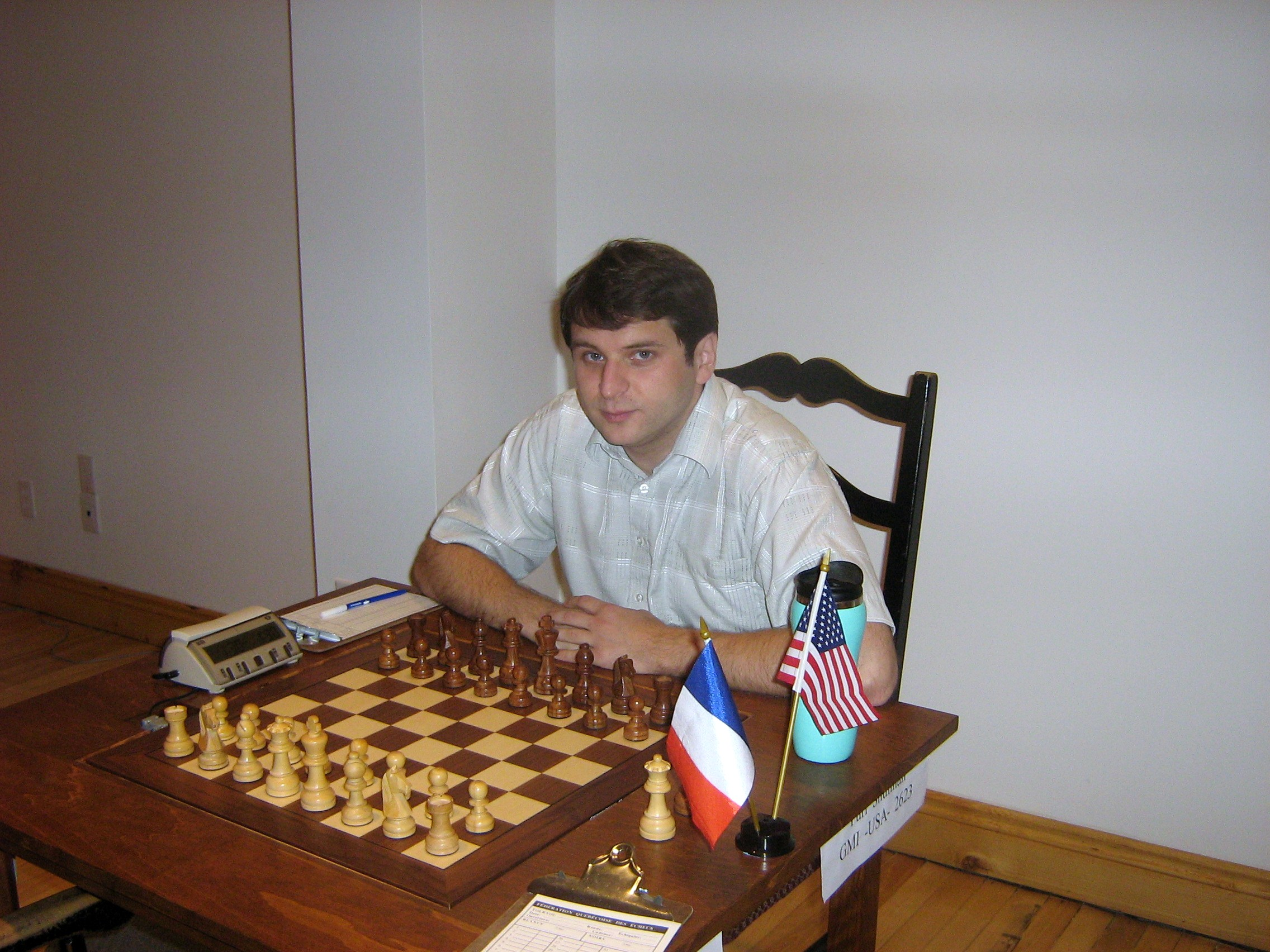 GM Yury Shulman, American chess grandmaster.